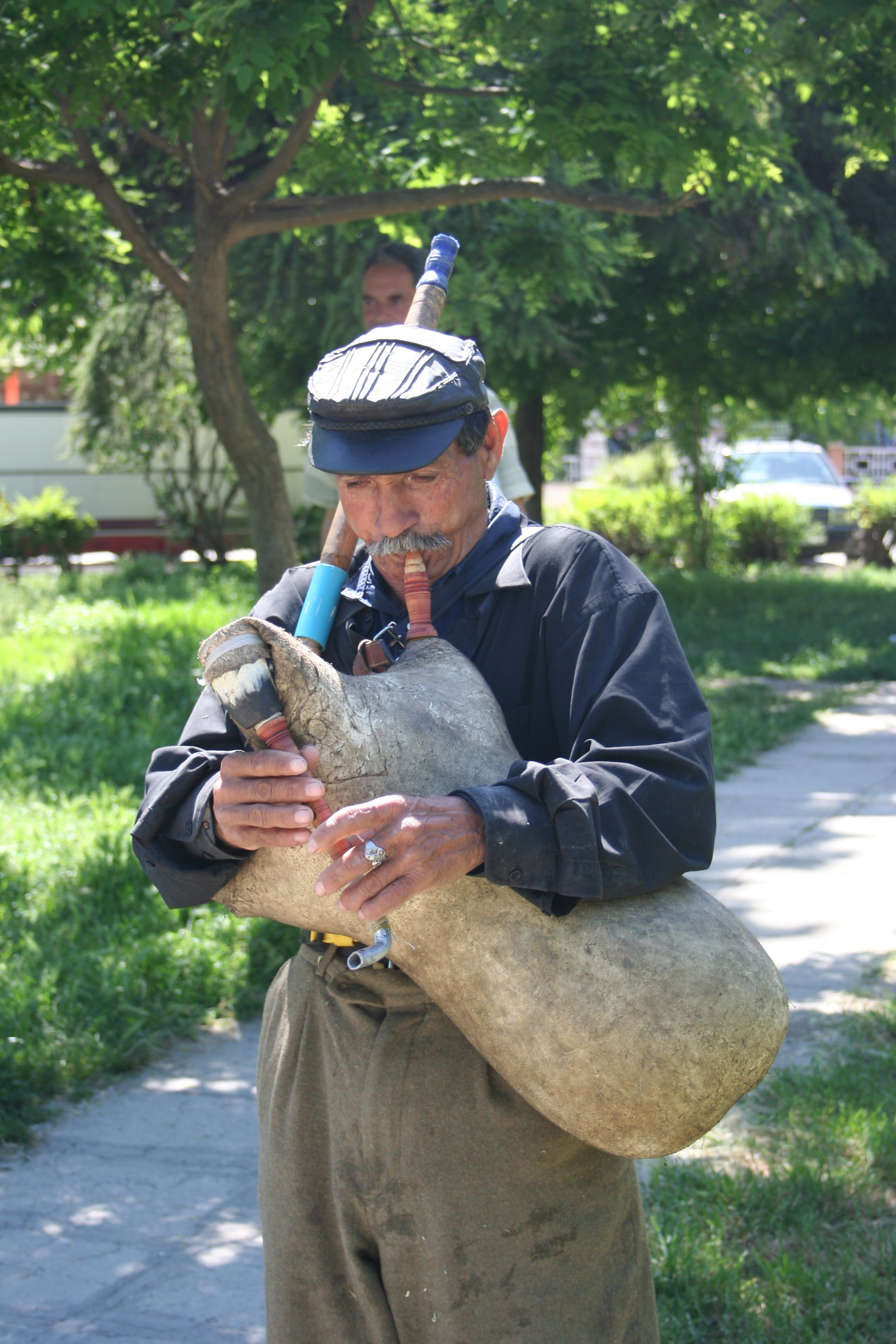 A bag piper in Elbasan, Albania